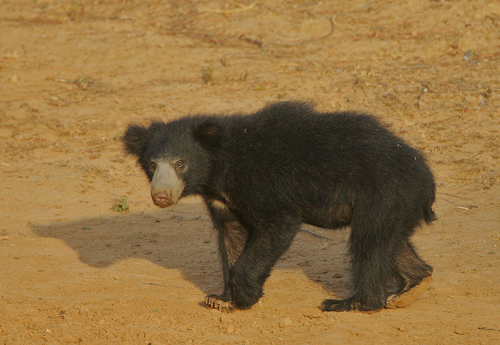 Sloth Bear